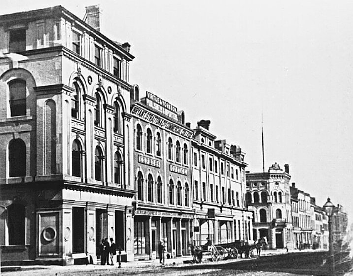 Bank of Commerce and the American Express Company, Yonge Street, Toronto, Canada, 1868.